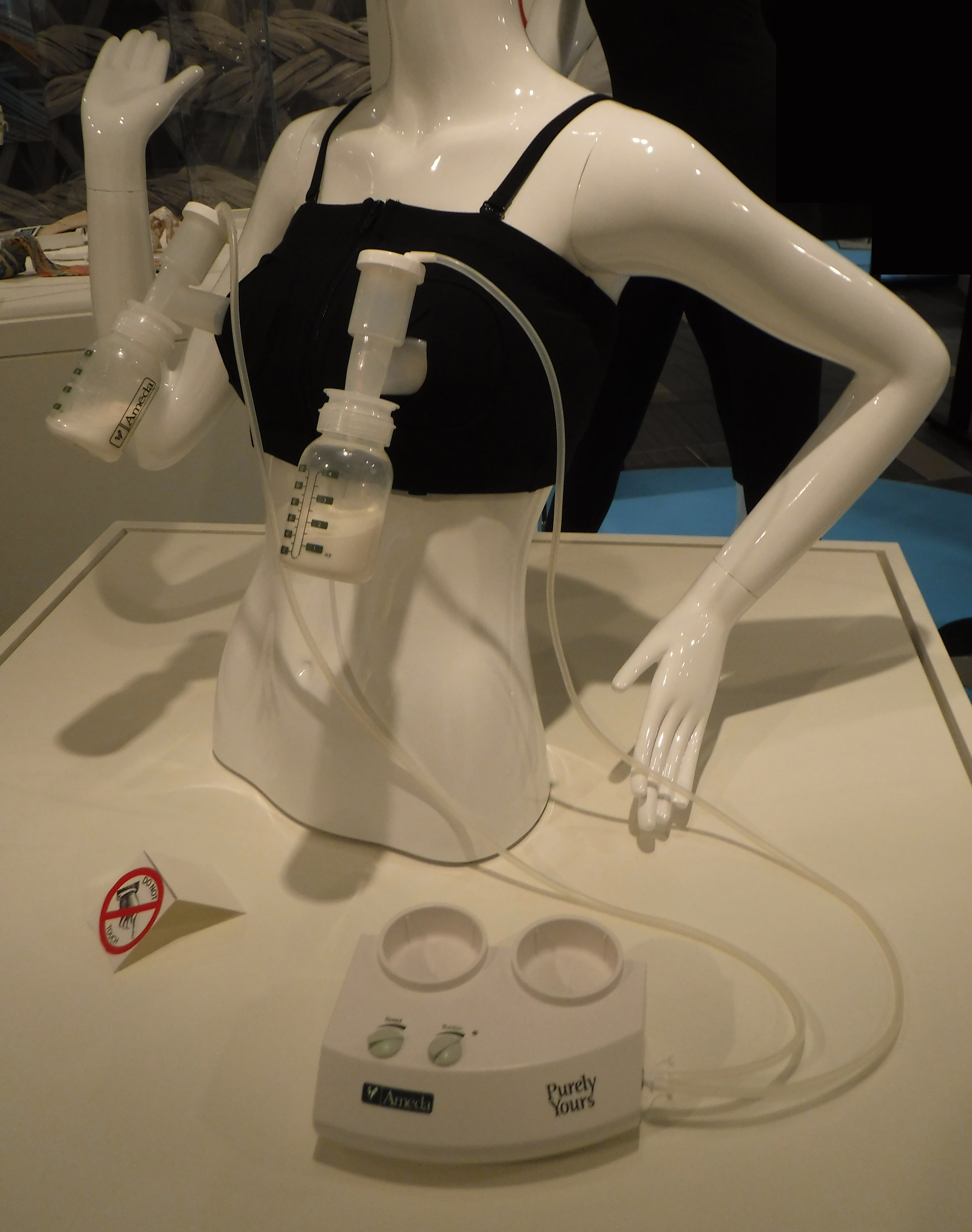 Ameda Purely Yours Double Electric Breast Pump worn with Hands-free Breast Pump Bra, of black stretch fabric, with openings at each breast for a pump attachment, displayed on mannequin as part of the museum exhibition Second Skin: The Science of Stretch at the Chemical Heritage Foundation, on view from November 4, 2016 to May 13, 2017.